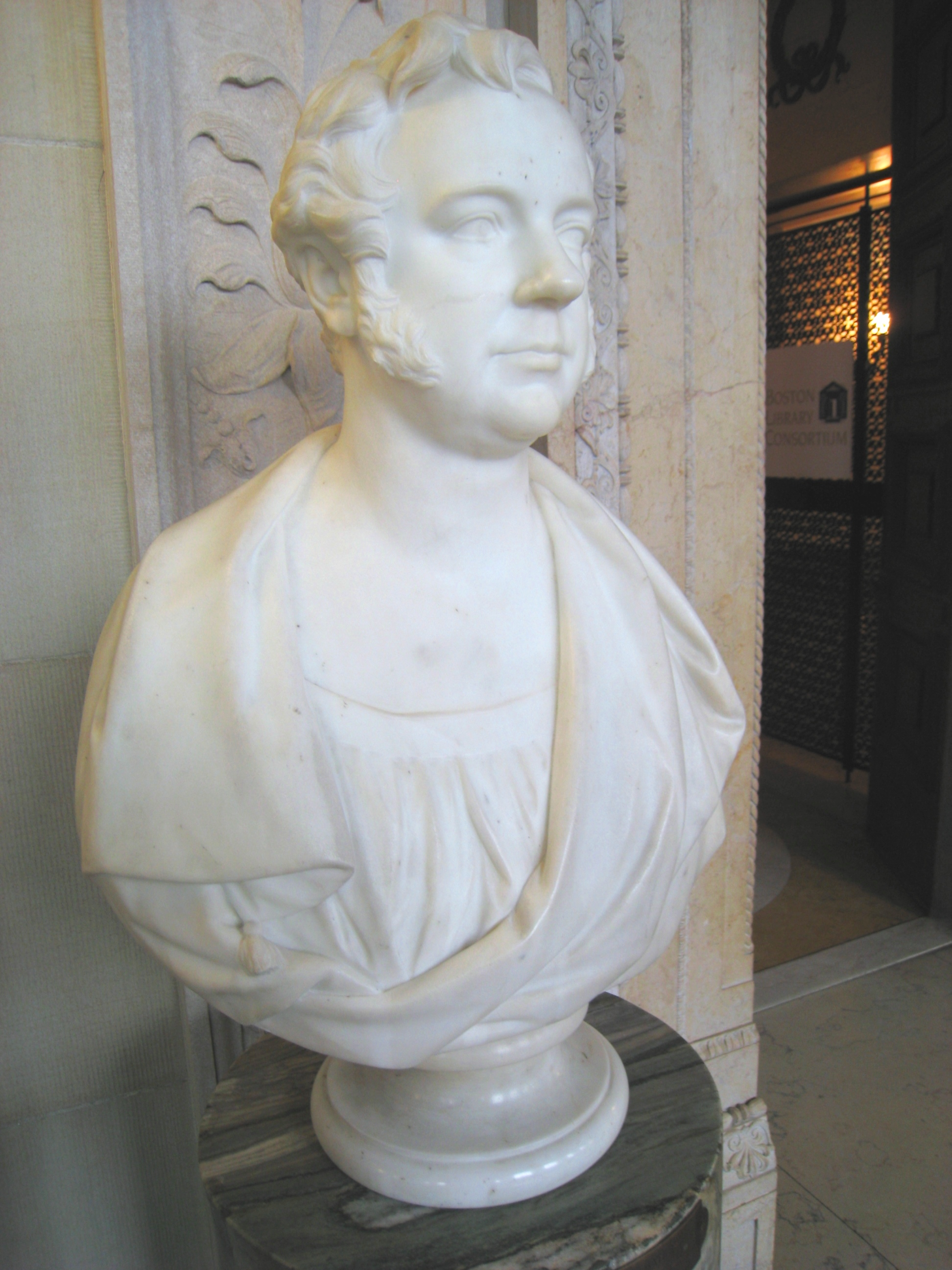 Bust of Joshua Bates, benefactor, Boston Public Library, Boston, Massachusetts, USA.